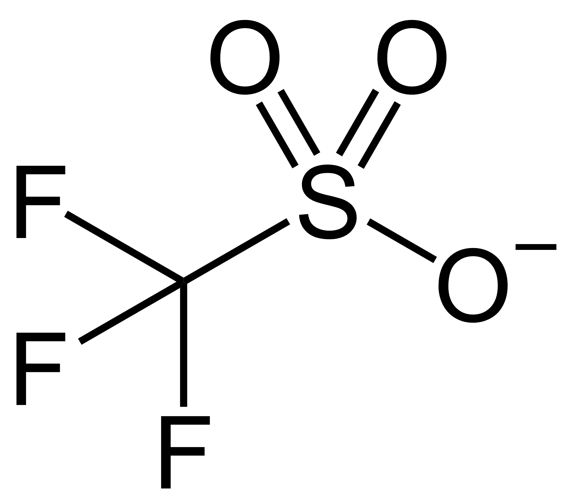 Triflate anion, structural formula